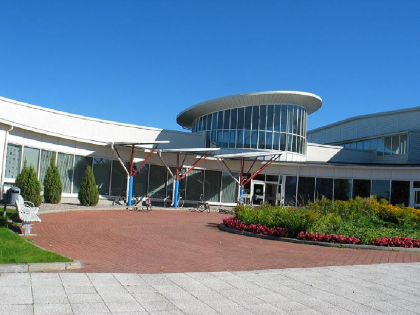 Janakkala Library, Finland